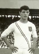 International soccer player Charlie Williams in 1963 before a match for Valletta FC in Malta.